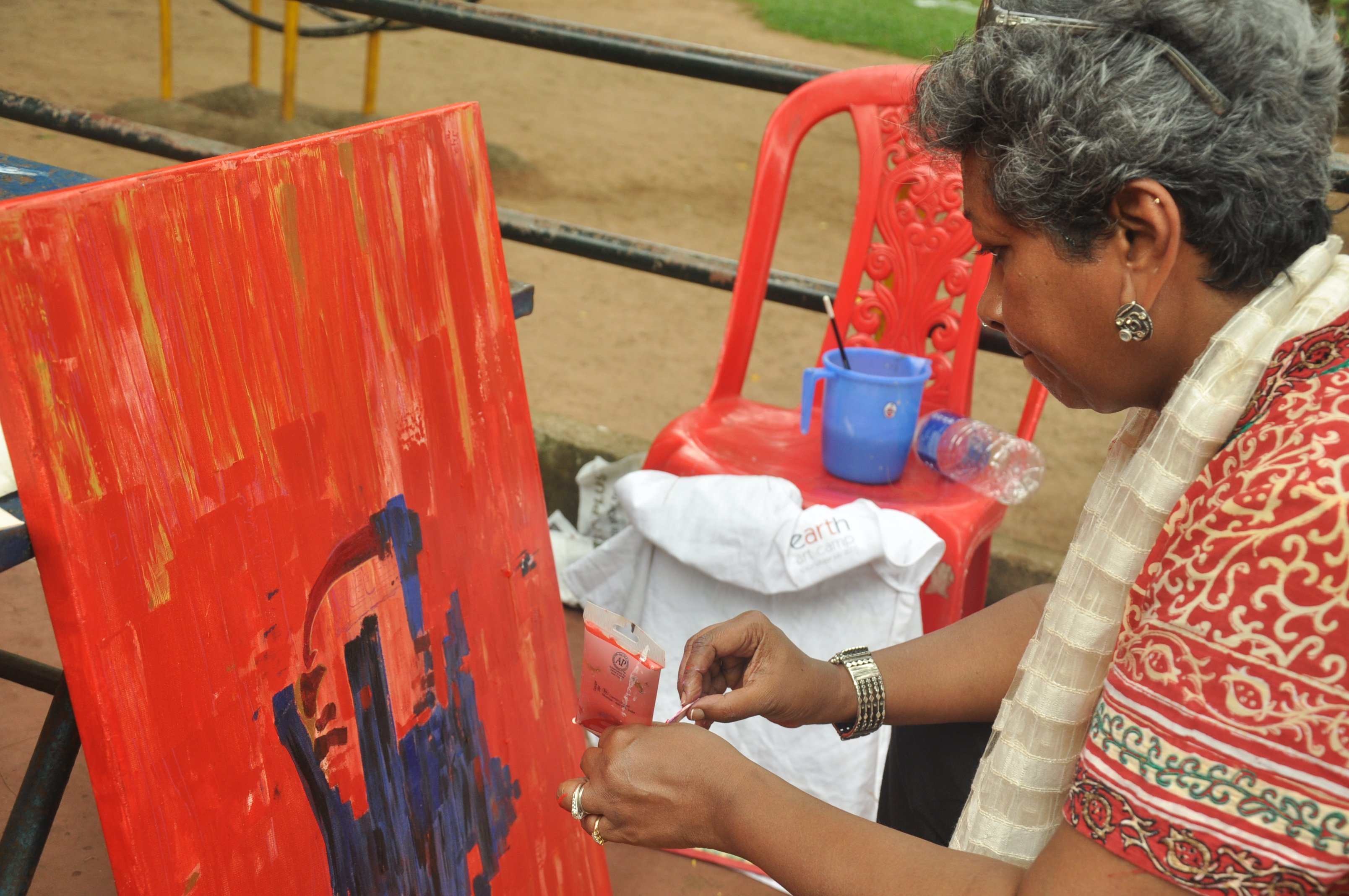 This media file is uploaded with Malayalam loves Wikimedia event - 3. Jeeja madhavan IPS, first lady from south india to get IPS.